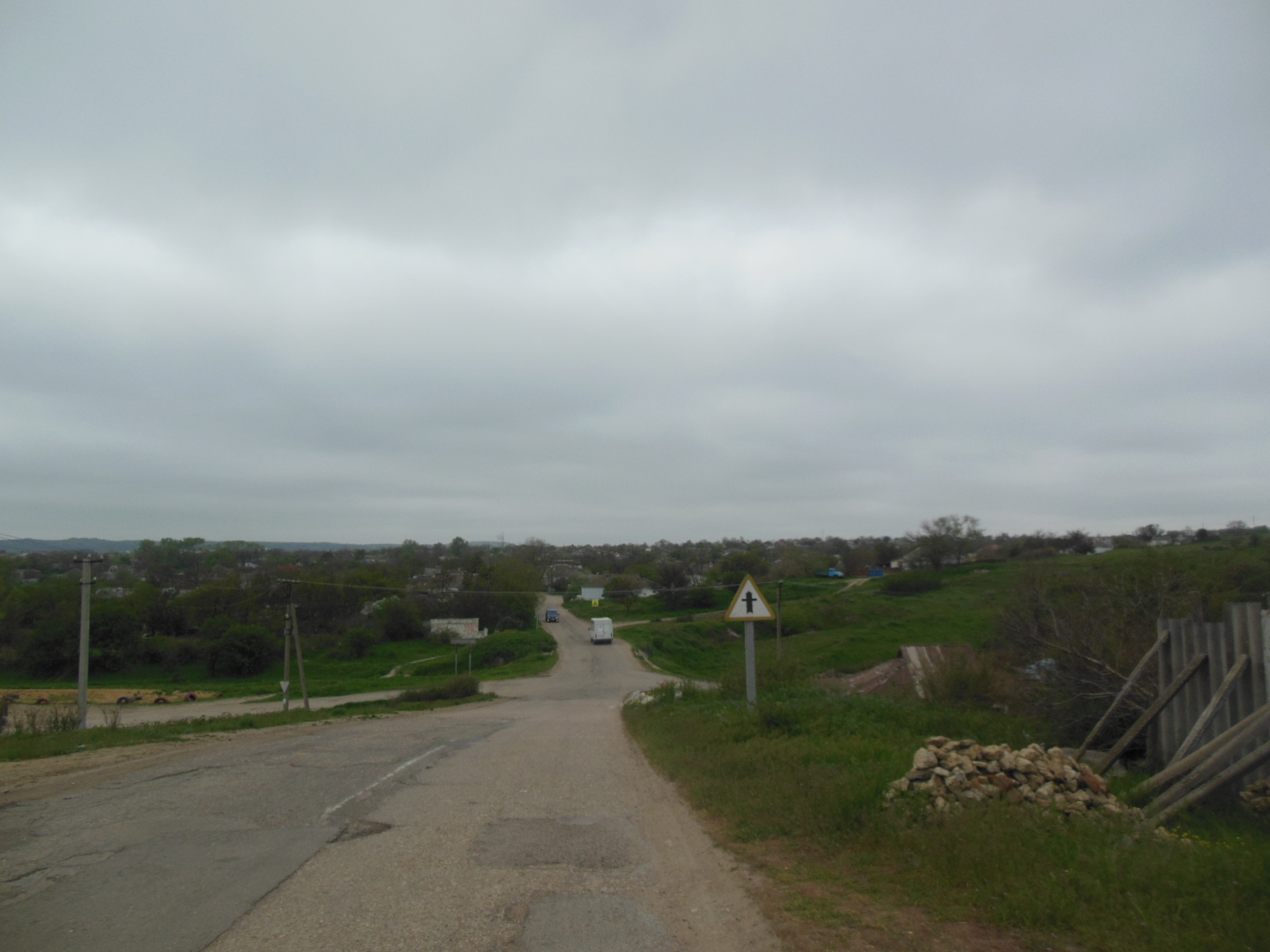 Village Voykovo, Leninskiy Raion, Crimea